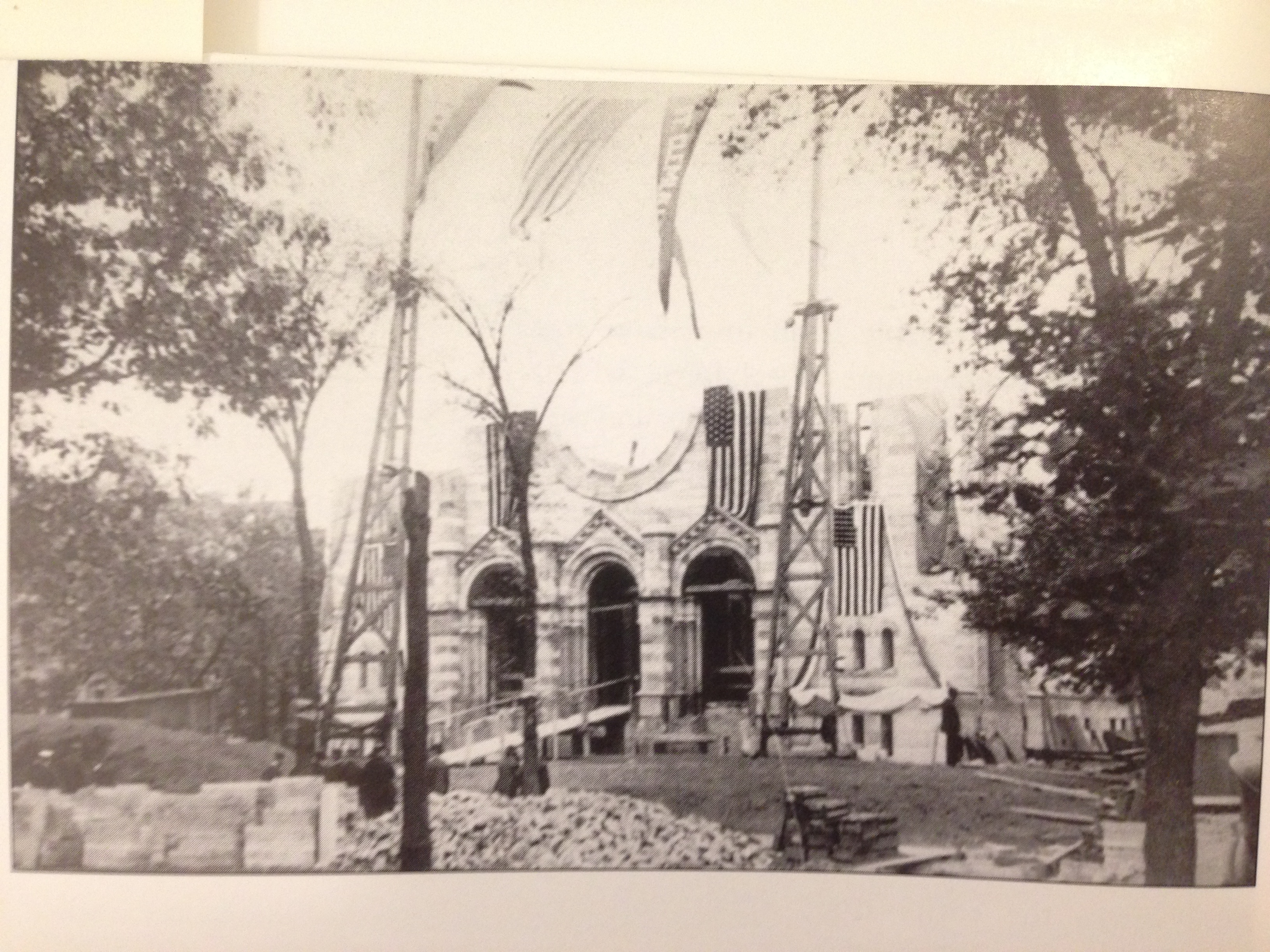 Saint Clement School Chicago, under construction in 1917-18. (Actually, this is the church under construction, not the school.)